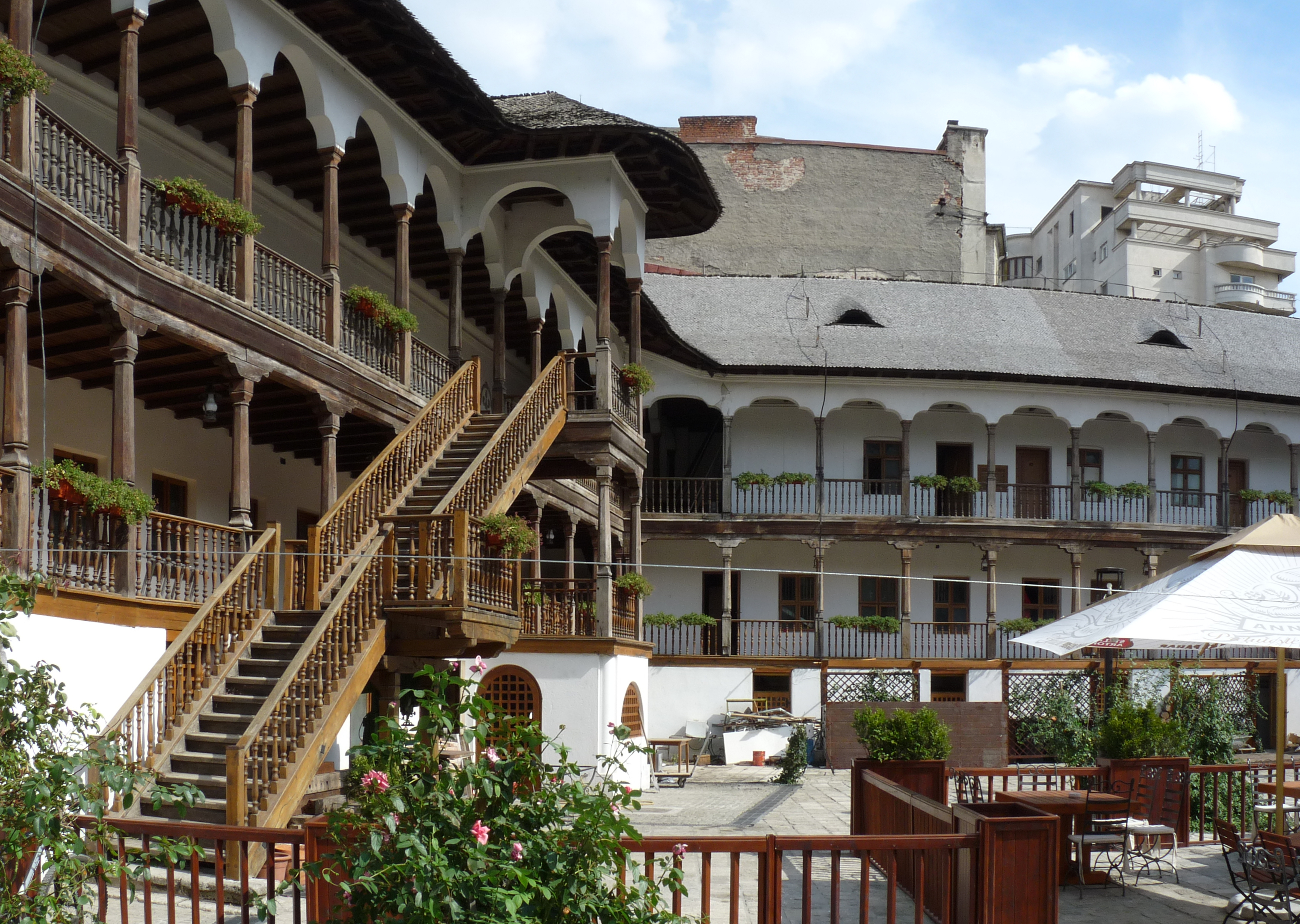 The inside of the yard of Manuc's Inn, Bucharest, RomaniaRomână: Interiorul Hanului lui Manuc din Bucureşti, România